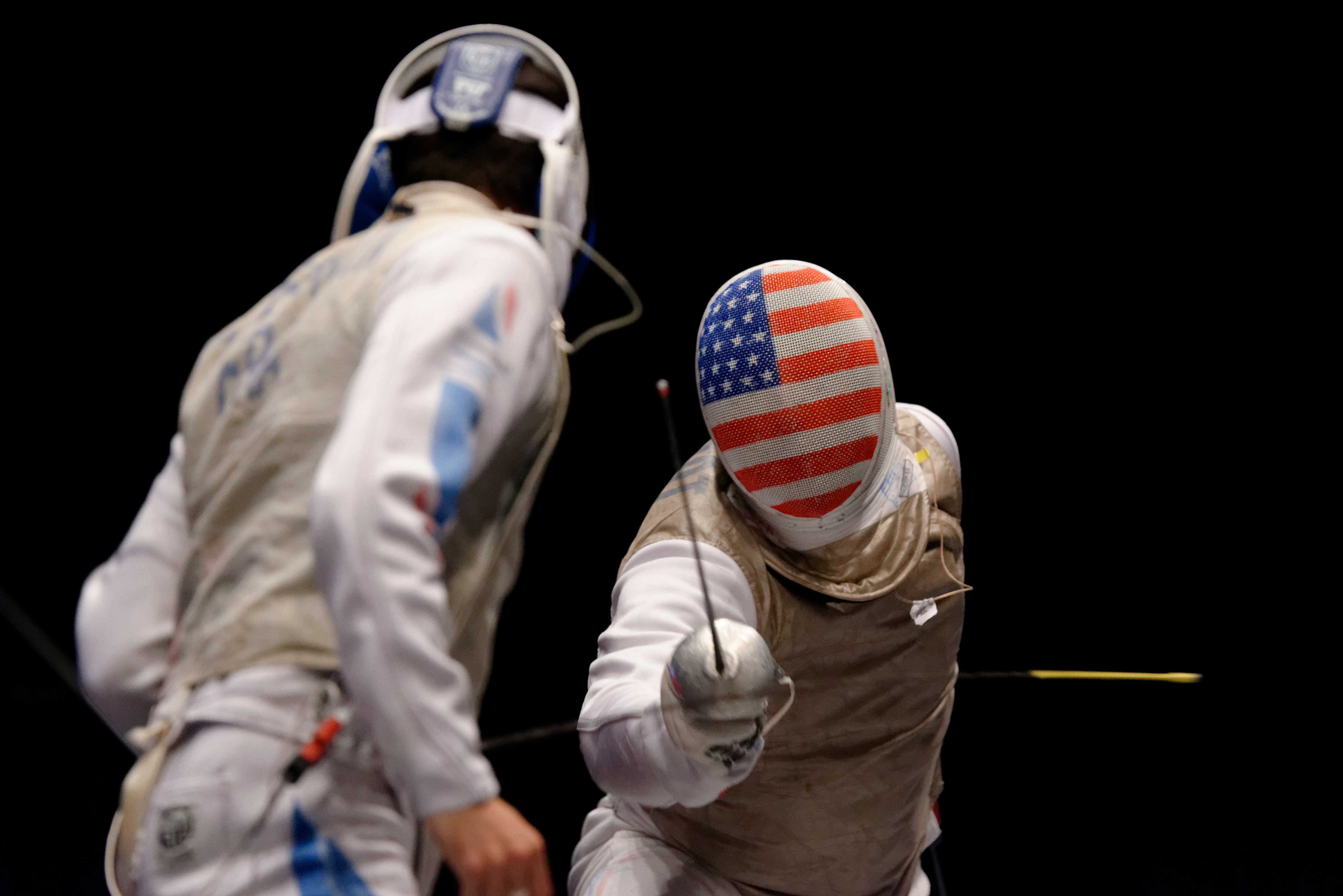 France's Erwann Le Péchoux (L) competes against Gerek Meinhardt of the United States (R) in the pools stage of the 2014 Master de Fleuret Melun Val de Seine.